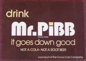 Original Mr. Pibb Logo